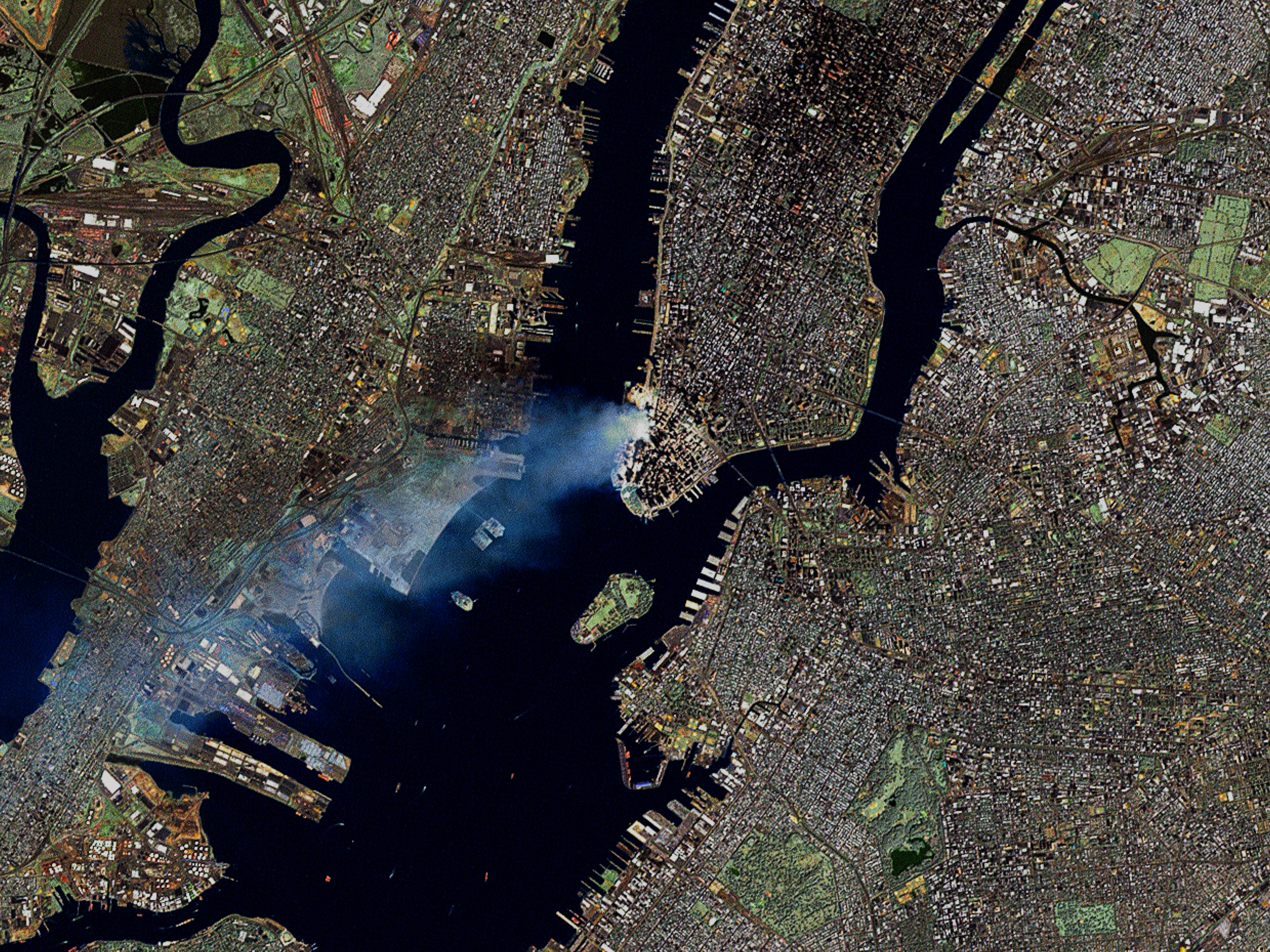 Landsat 7 image of Manhattan on September 12, 2001. The picture shows a smoke plume spreading over large portions of the city, from the World Trade Center attack.